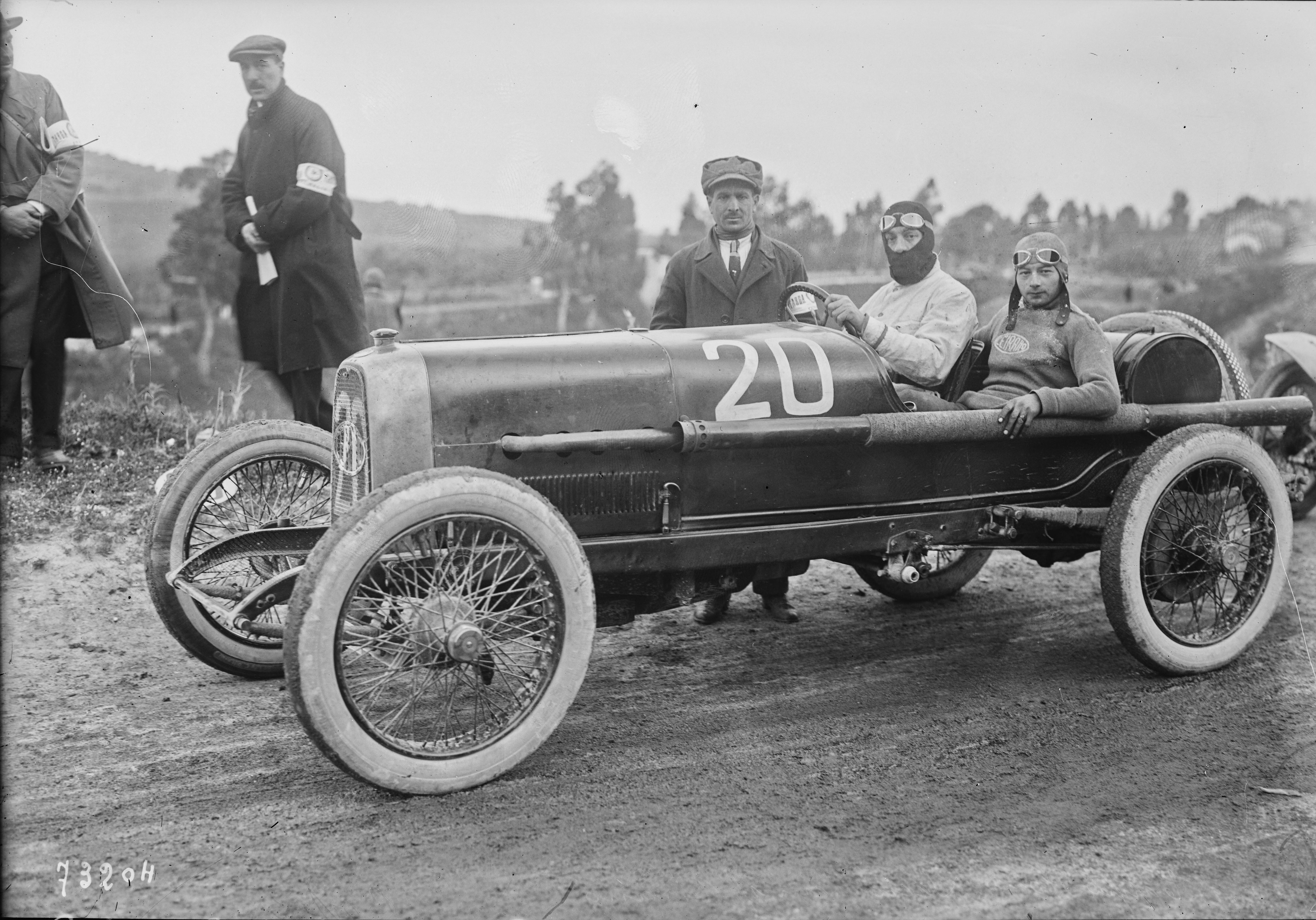 Tommaso Saccomani in his Ceirano at the 1922 Targa Florio.